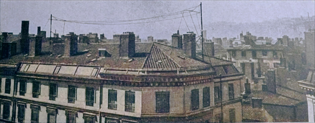 A wire amateur radio antenna suspended above an apartment house in France, in 1912. This type is called an inverted L antenna, and is widely used in the longwave (low frequency) radio band, which was the most widely used band during the wireless telegraphy era at the beginning of the 20th century. It consists of a number of parallel horizontal wires like a clothesline, suspended by insulated supports at each end, with vertical wires connected at one end (right) dropping down to the transmitter. The vertical wires are the radiating element; while the horizontal wires serve as a capacitive top-load, to add capacitance to the antenna, to increase the current in the vertical element, and thus the radiated power.